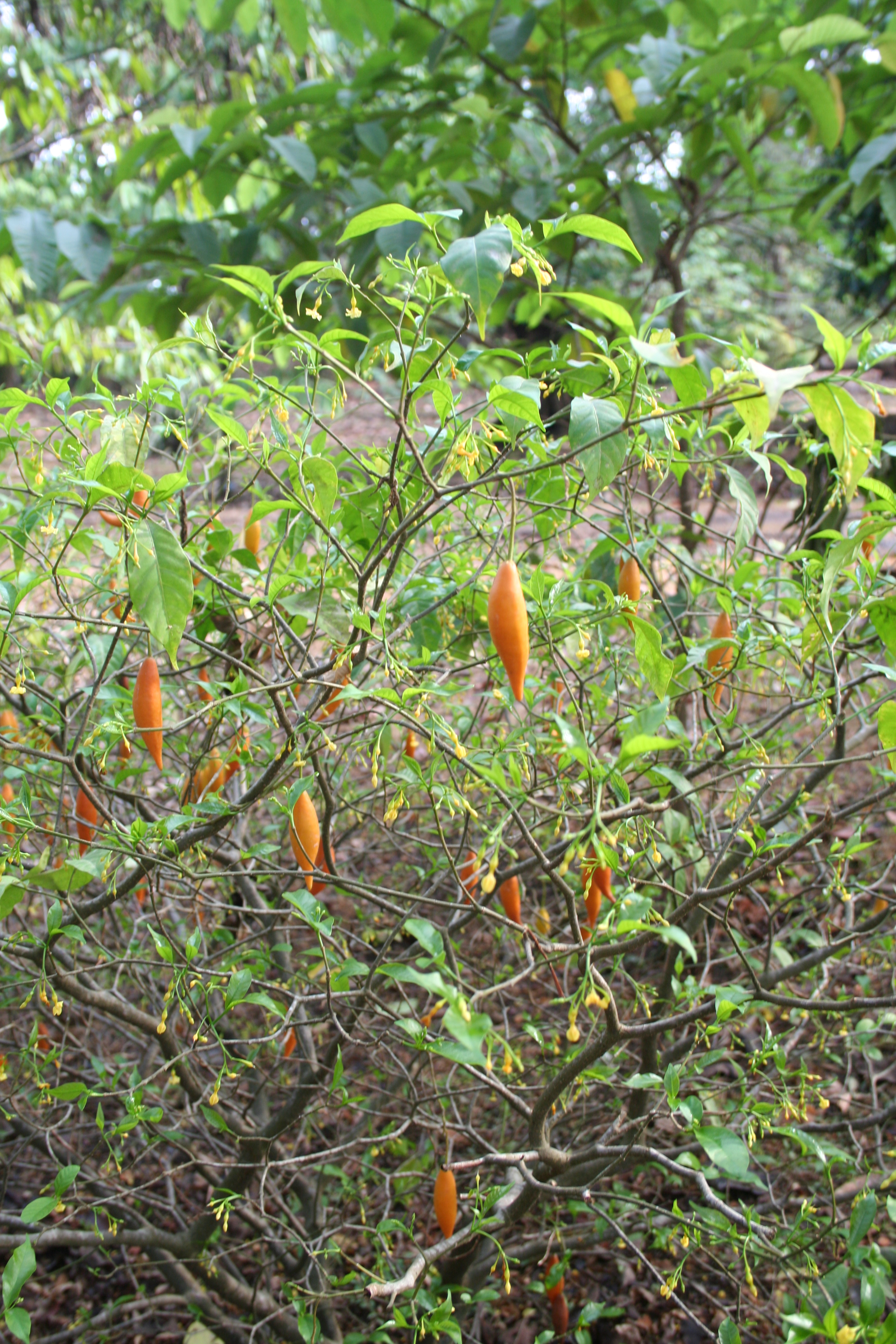 Tabernanthe iboga (Apocynaceae), Limbe Botanical Garden, Cameroon